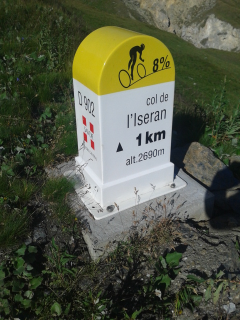 2015 Mountain pass cycling milestone - Iseran from Bonneval-sur-Arc